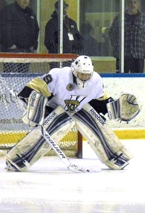 This photo was taken by Devan Mighton during the 2013-14 GOJHL season.